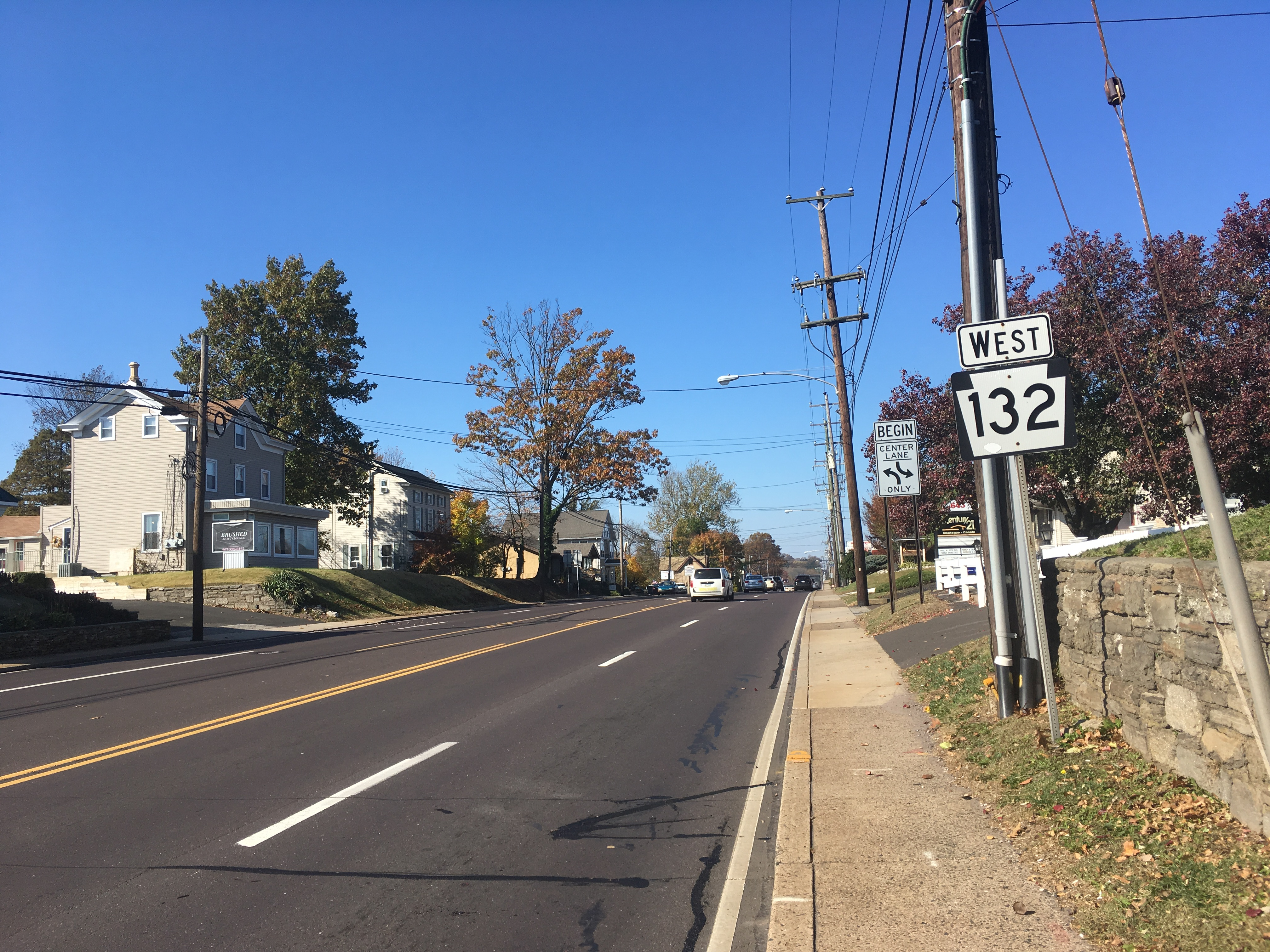 Westbound Pennsylvania Route 132 (Street Road) past the intersection with Pennsylvania Route 232 (Second Street Pike) in Upper Southampton Township, Pennsylvania